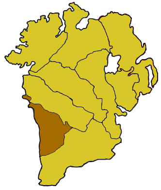 Catholic Diocese of Ardagh